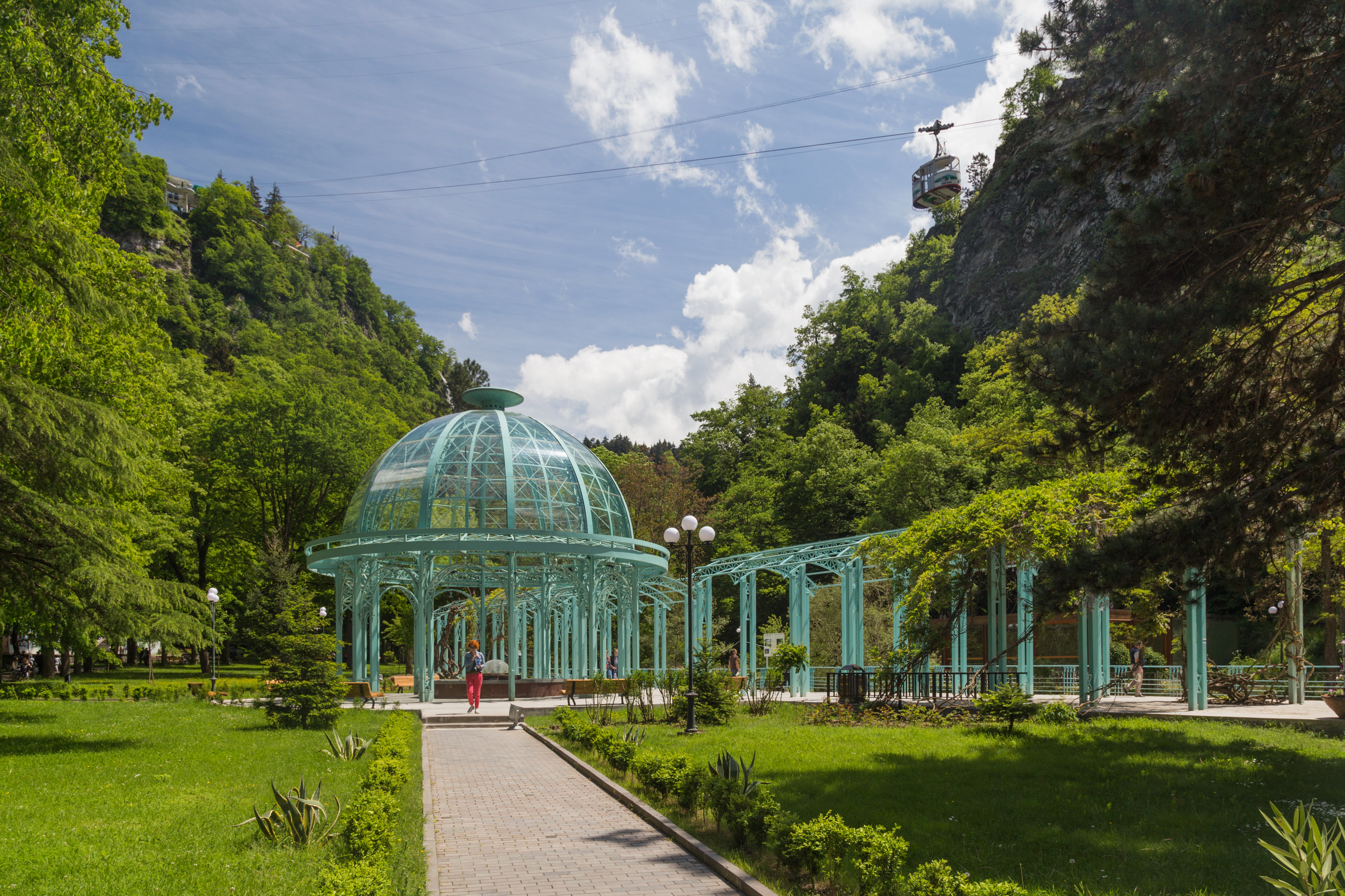 Central Park (Mineral Water Park). Borjomi, Samtskhe-Javakheti, Georgia.